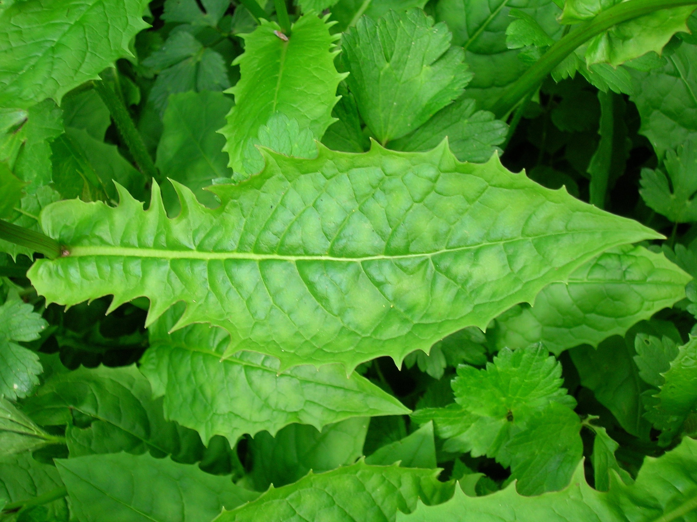 Crepis paludosa leaf. Spier's school. Beith. Ayrshire. Scotland.